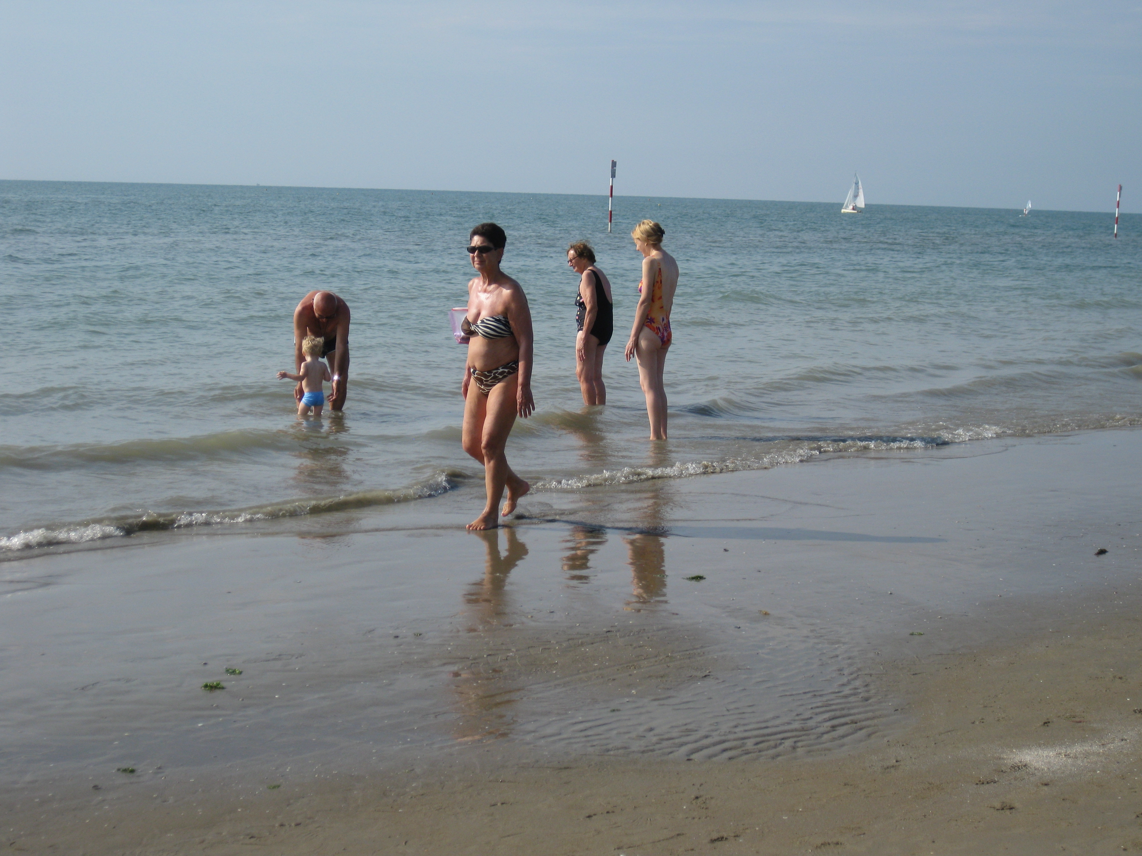 Lignano Sabbiadoro Beach